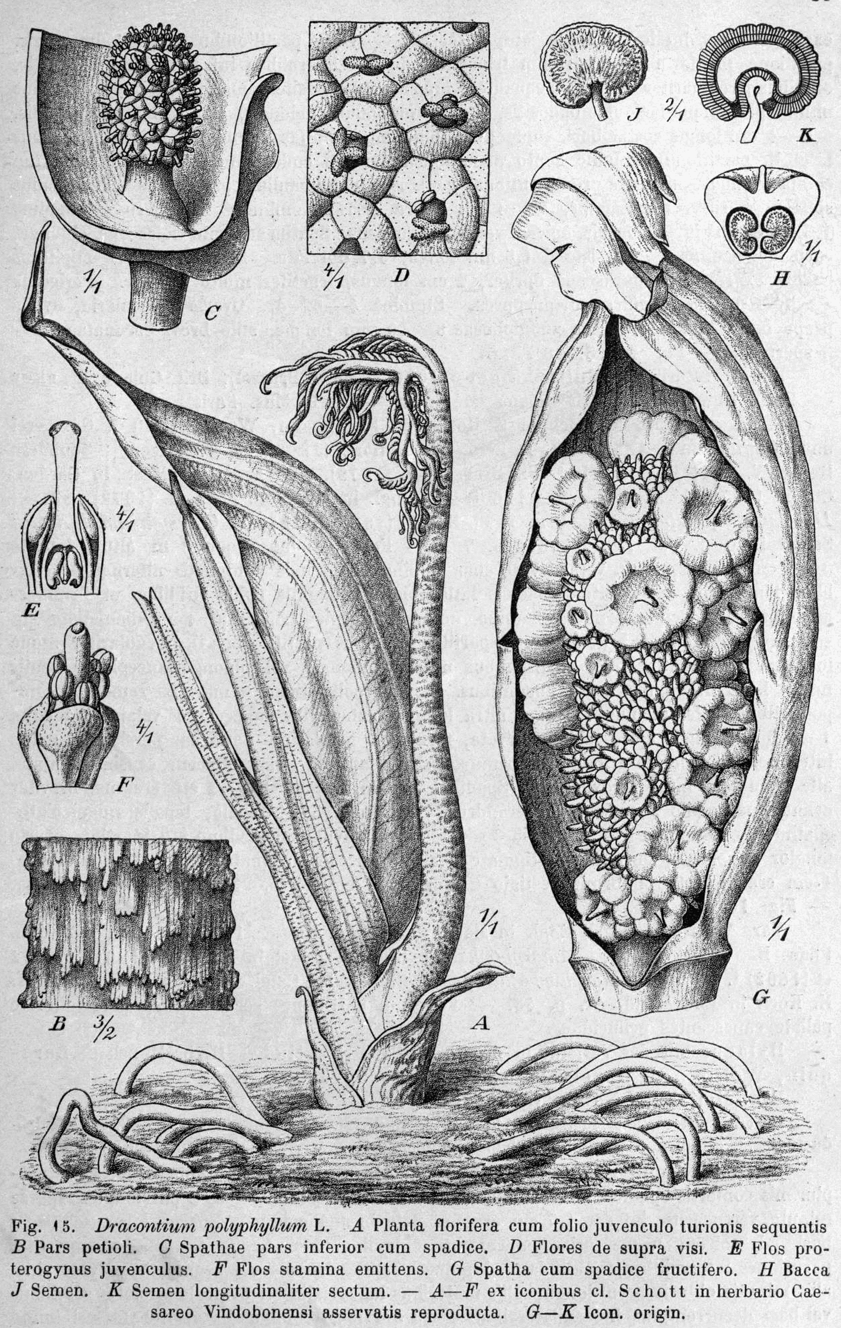 Dracontium polyphyllum